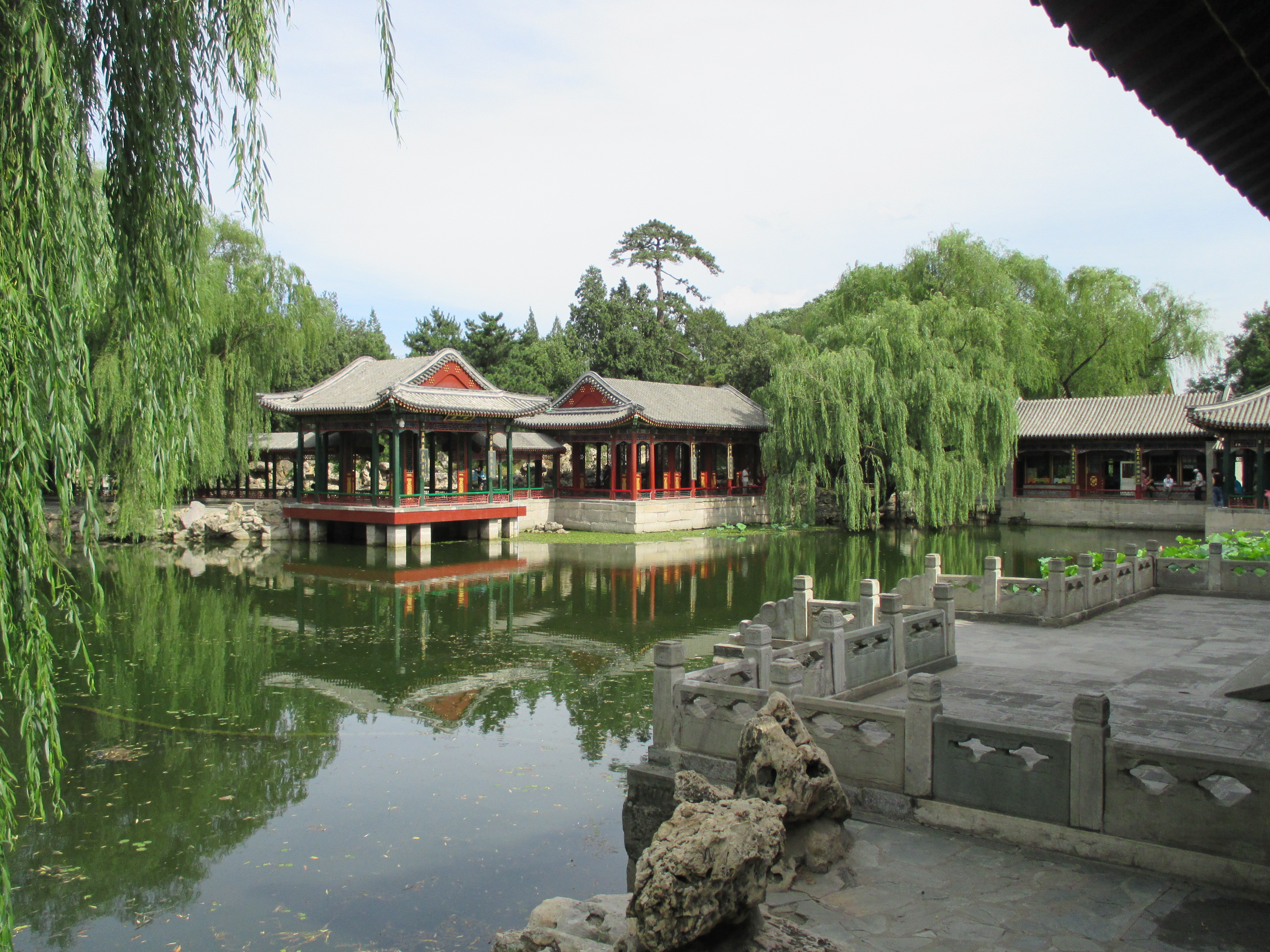 The Garden of Harmonious Pleasures (a.k.a. Xiequyuan) in the Summer Palace (Beijing, China).